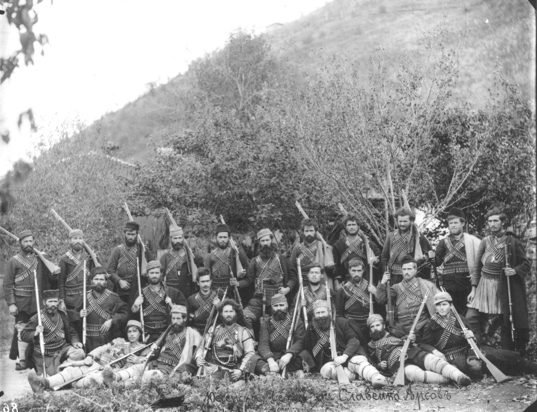 Slaveiko Arsov's band.